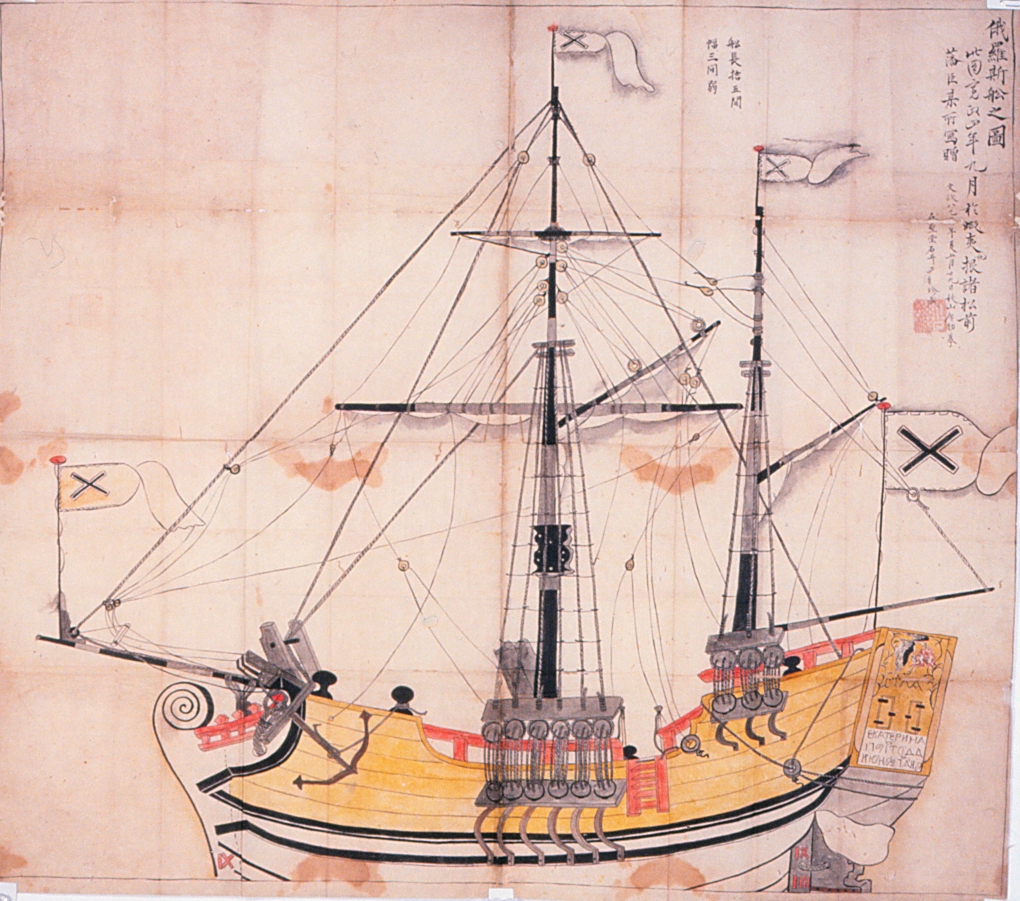 Ekaterina, Vessel of Adam Laxman, Nemuro City Museum of History and Nature, Nemuro, Hokkaido, Japan